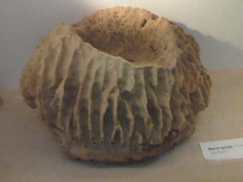 Xestospongia testudinaria - syn. Petrosia testudinaria (Sponge - Porifera) at the Natural History Museum in London, England.